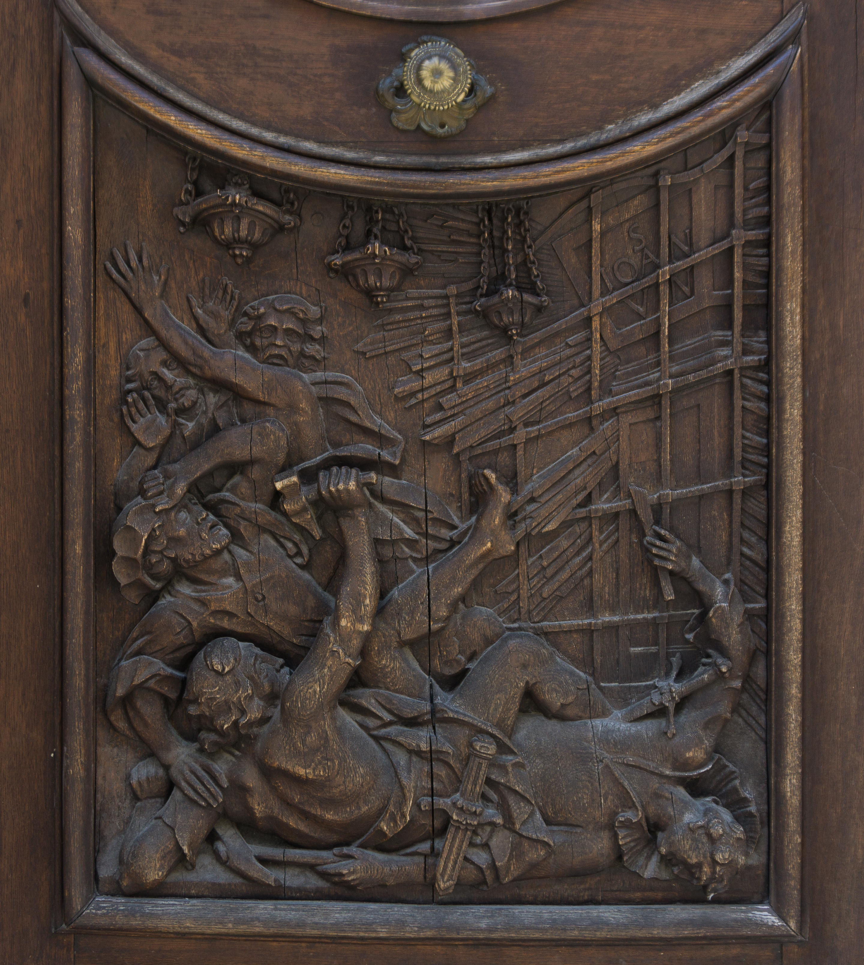 Main door panel work of Asam church in old city, Munich, GermanyThis is a photograph of an architectural monument.